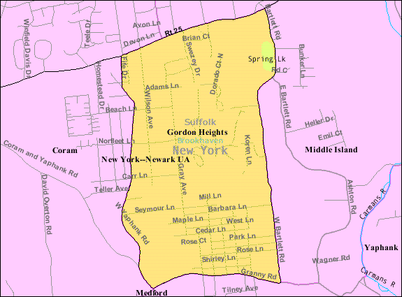 U.S. Census 2000 reference map for Gordon Heights